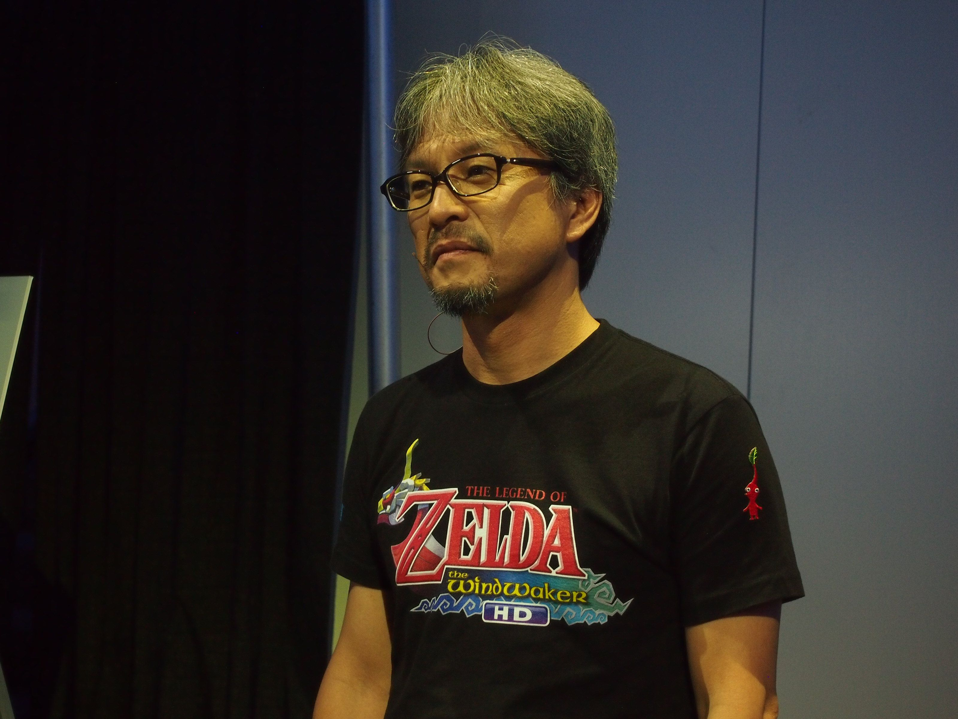 Eiji Aonuma, producer of the The Legend of Zelda series, at E3 2013.